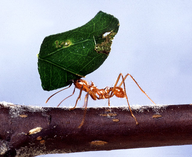 Image taken from: Image Number K5860-1 Leaf-cutting ants, such as this foraging worker of Atta cephalotes, are the primary herbivores of tropical areas such as Central America. they can be serious agricultural pests. Photo by Scott Bauer.